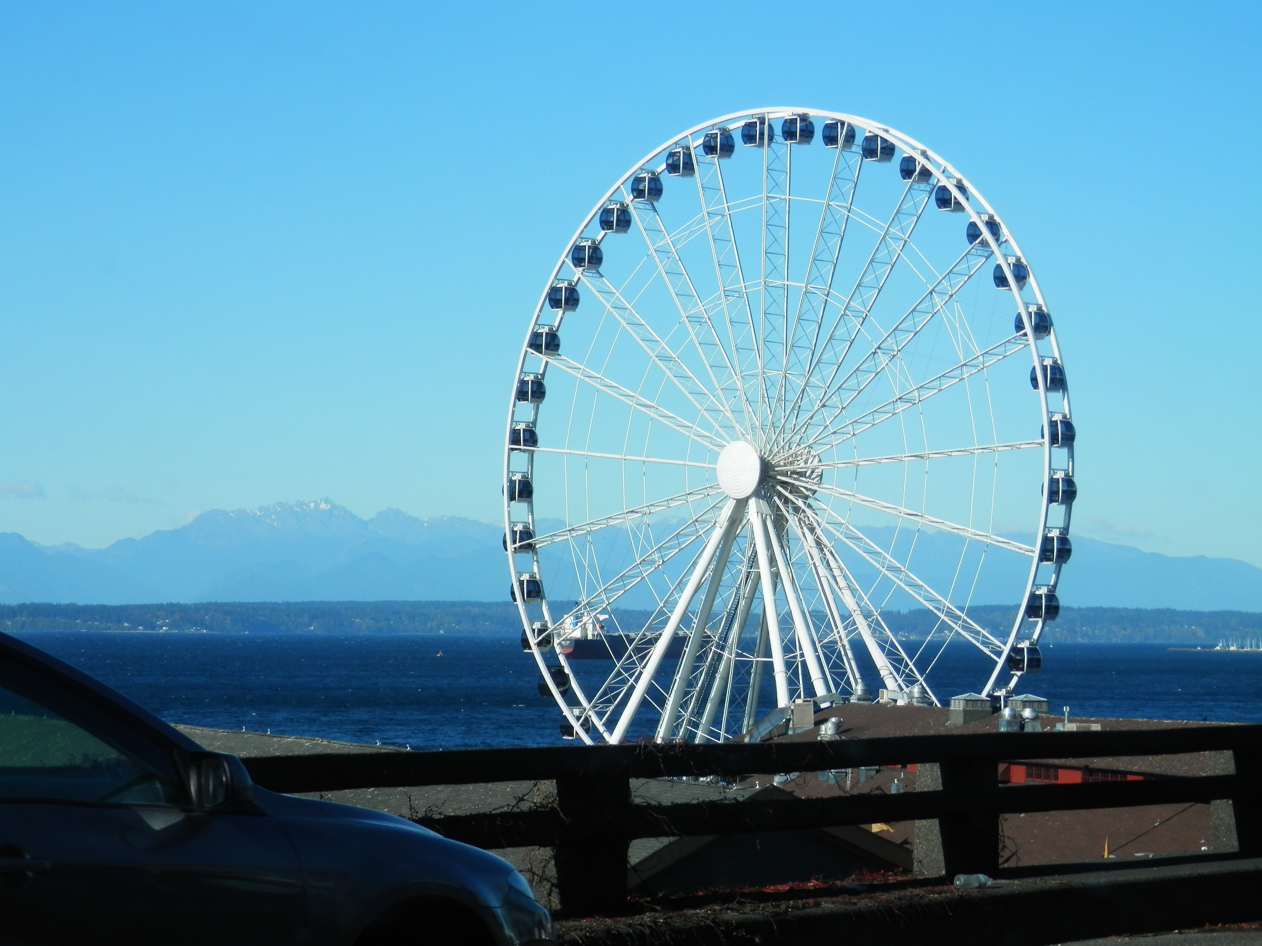 Seattle Great Wheel October 28, 2013